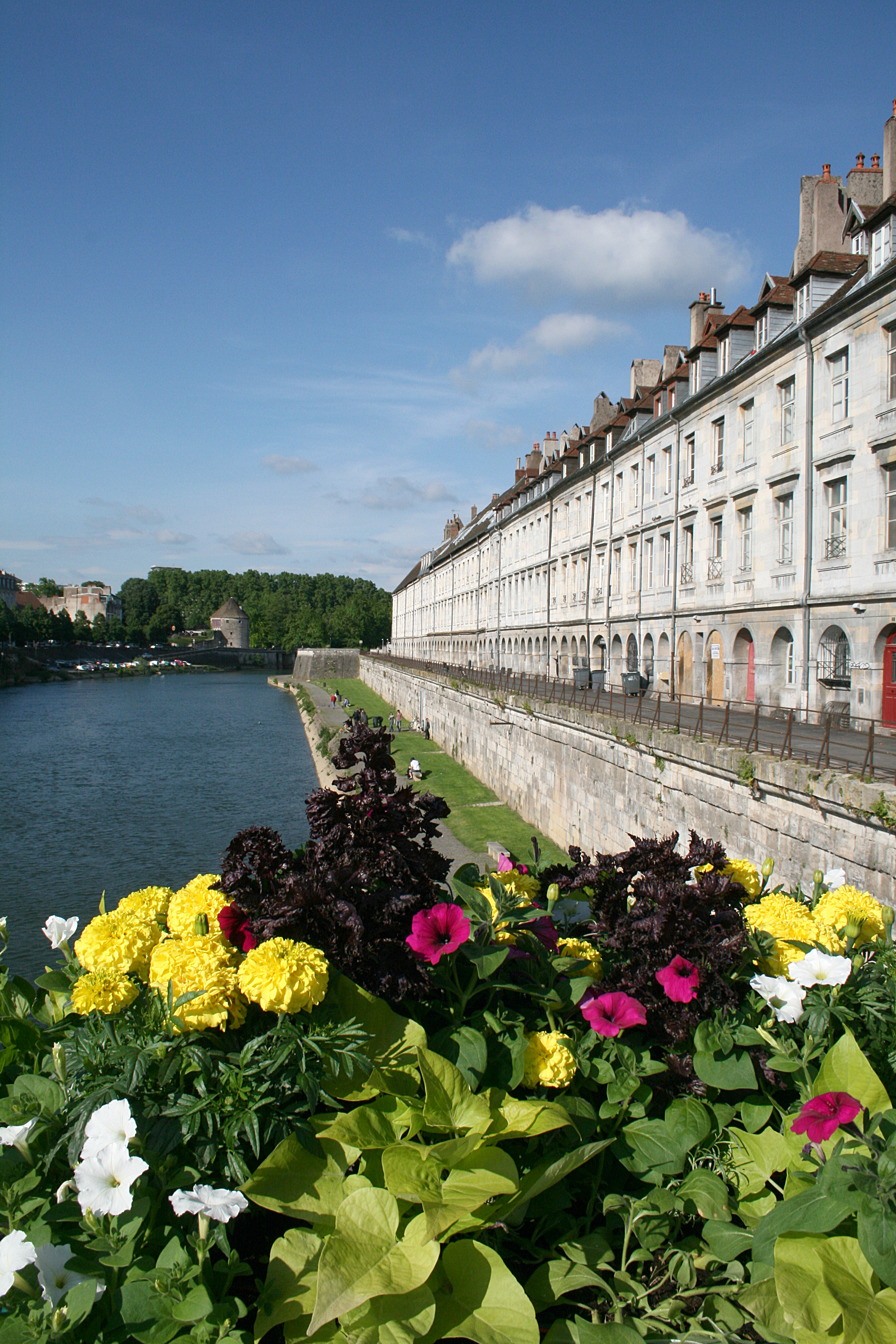 Besançon (Doubs - France), the Doubs river, the Tour de la Pelote and the Quai Vauban with the former granaries of the city seen from the Pont Battant.